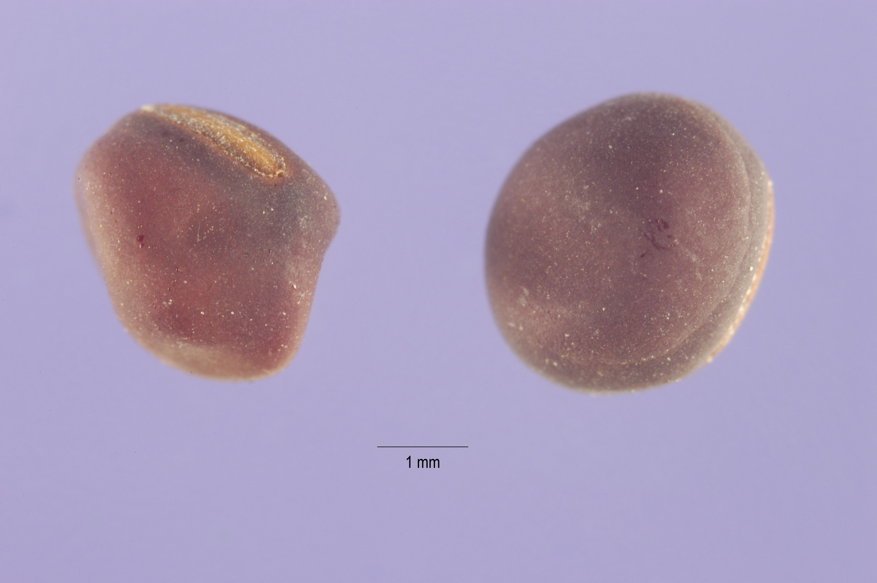 Lathyrus palustris seeds